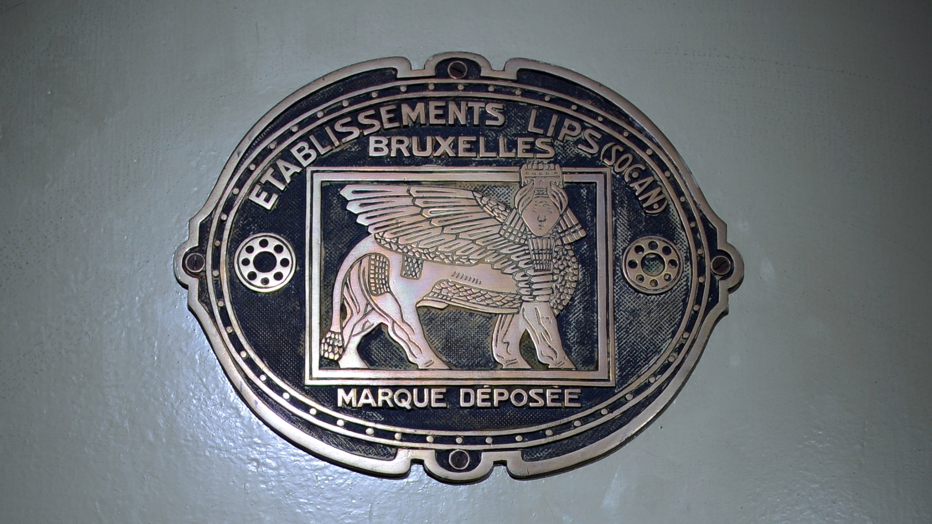 Brand logo of 'Etablissements Lips SA' on a safe door.